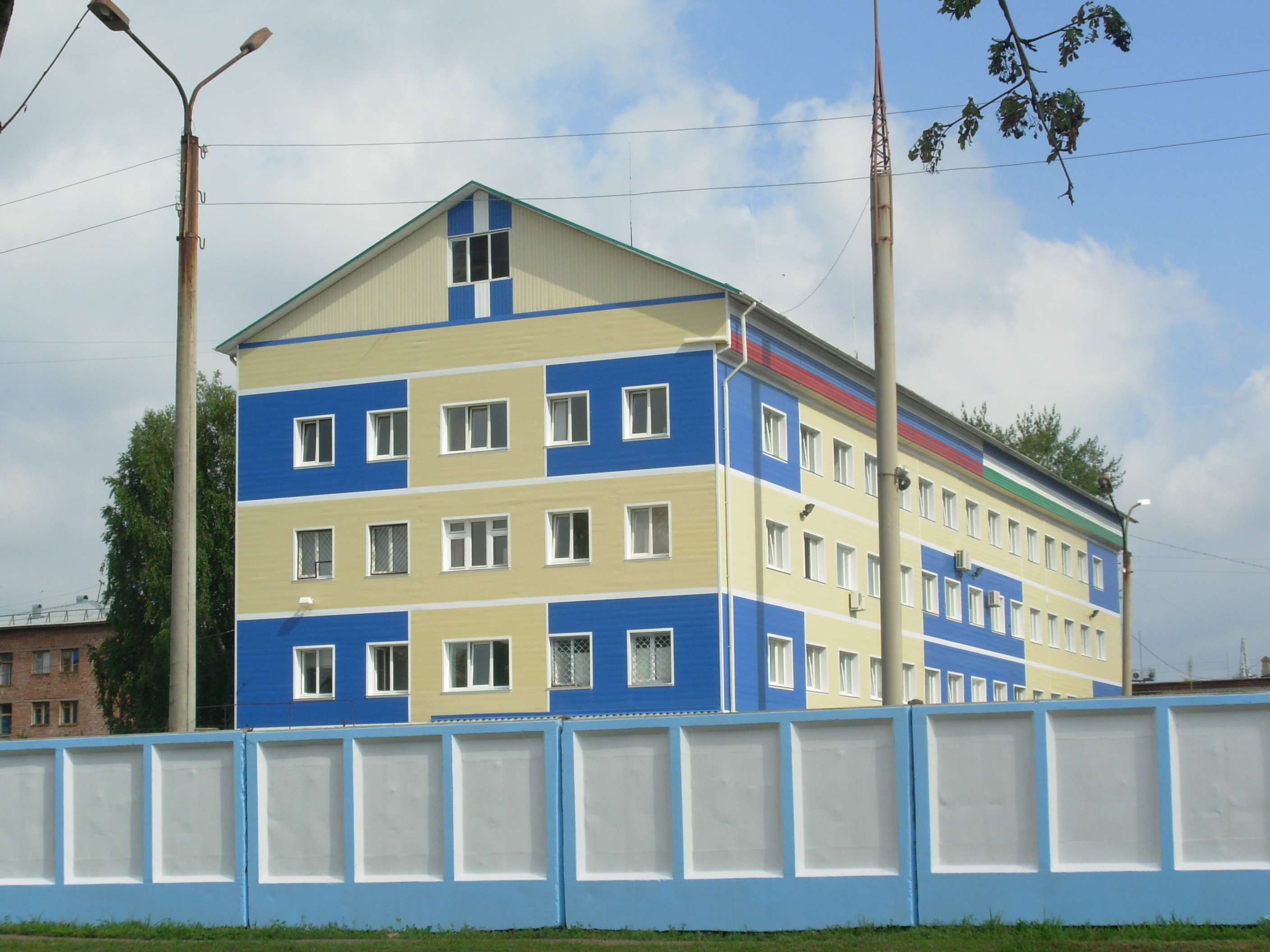 street